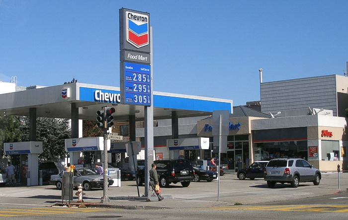 Chevron Corporation-branded gas station on 19th Avenue, State Route 1, San Francisco, California.Photographed by user Coolcaesar on October 16, 2005.